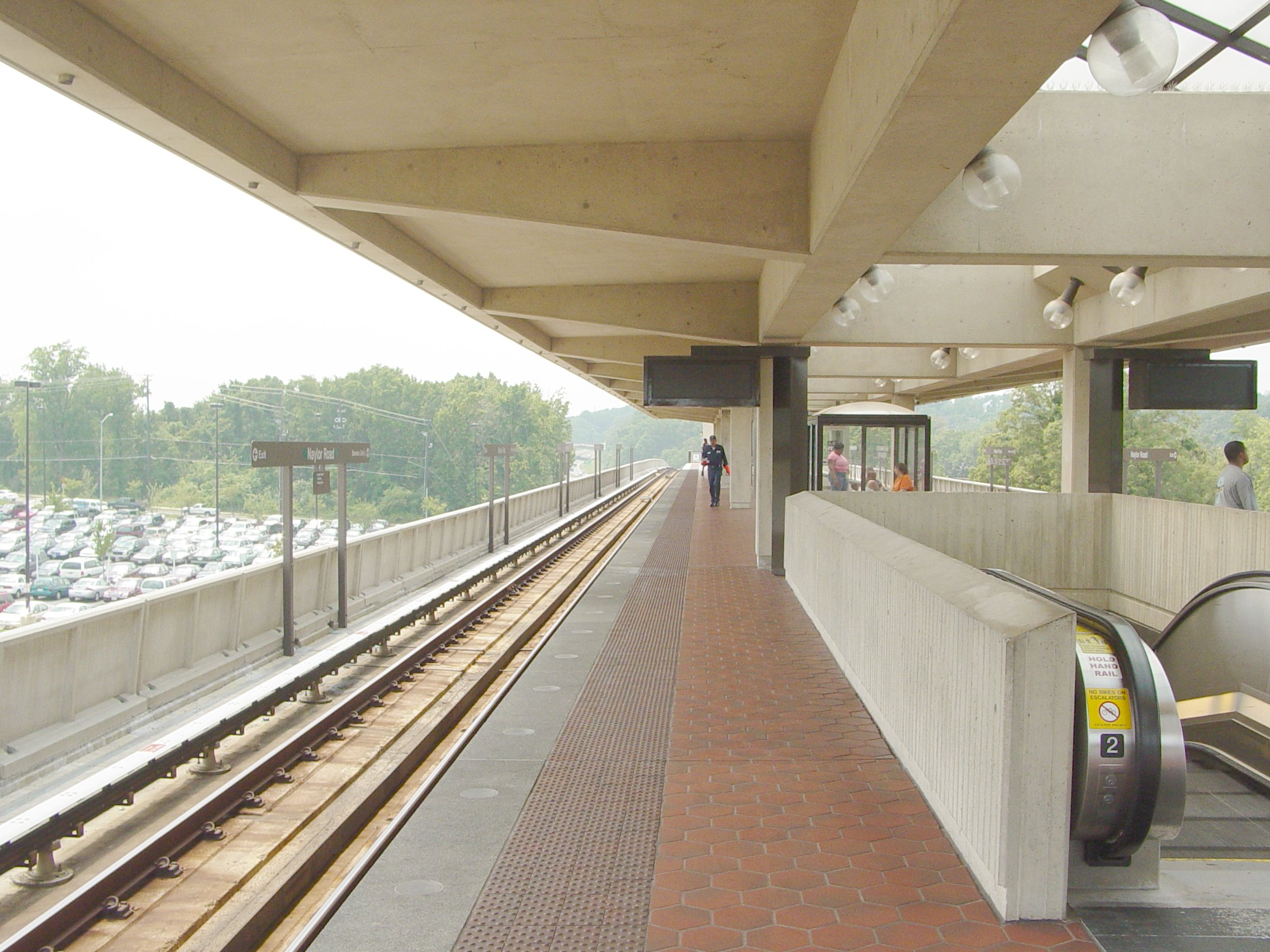 Naylor Road station on the Green Line of the Washington Metro. Photo taken July 21, 2004 by Ben Schumin.